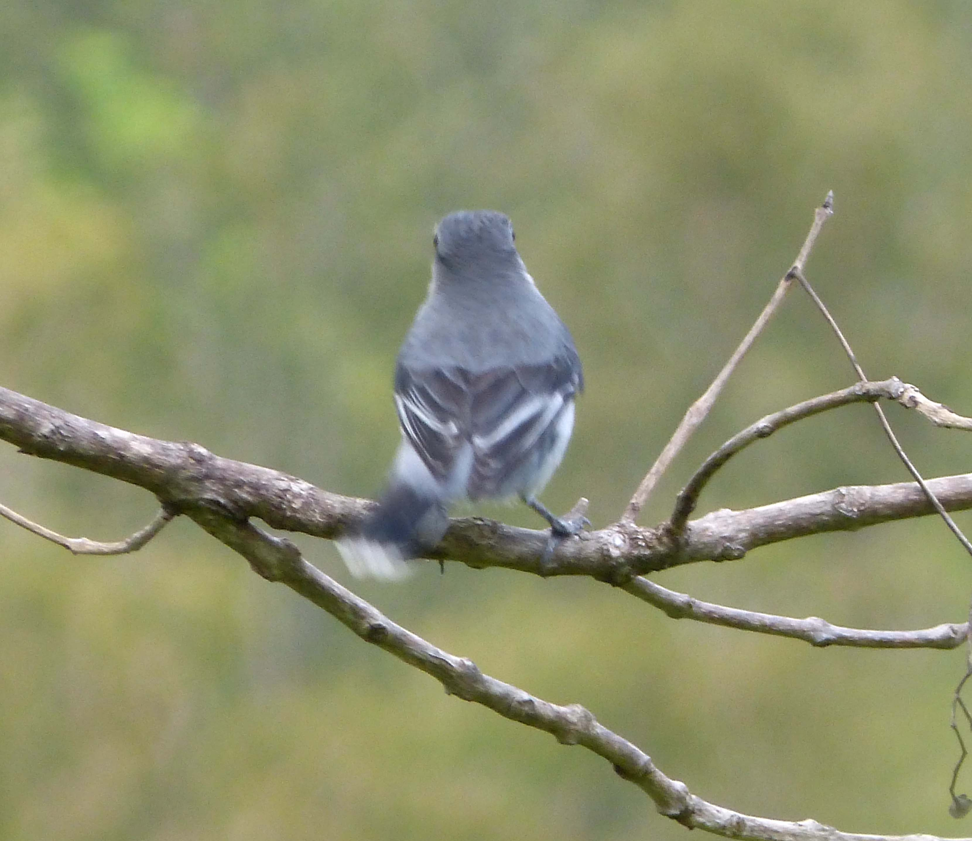 Uncommon Edemic. One seen on two separate days on Macchabee Trail in Black River Gorges N.P.